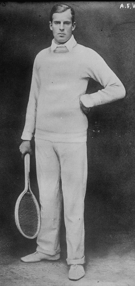 TITLE: A.F. Wilding [tennis] CALL NUMBER: LC-B2- 3222-5[P&P] REPRODUCTION NUMBER: LC-DIG-ggbain-17169 (digital file from original negative) RIGHTS INFORMATION: No known restrictions on publication. MEDIUM: 1 negative : glass ; 5 x 7 in. or smaller. CREATED/PUBLISHED: [no date recorded on caption card] CREATOR: Bain News Service, publisher. NOTES: Title from unverified data provided by the Bain News Service on the negatives or caption cards. Forms part of: George Grantham Bain Collection (Library of Congress). General information about the Bain Collection is available at Temp. note: Batch four loaded. FORMAT: Glass negatives. REPOSITORY: Library of Congress Prints and Photographs Division Washington, D.C. 20540 USA DIGITAL ID: (digital file from original neg.) ggbain 17169 CONTROL #: ggb2005017477